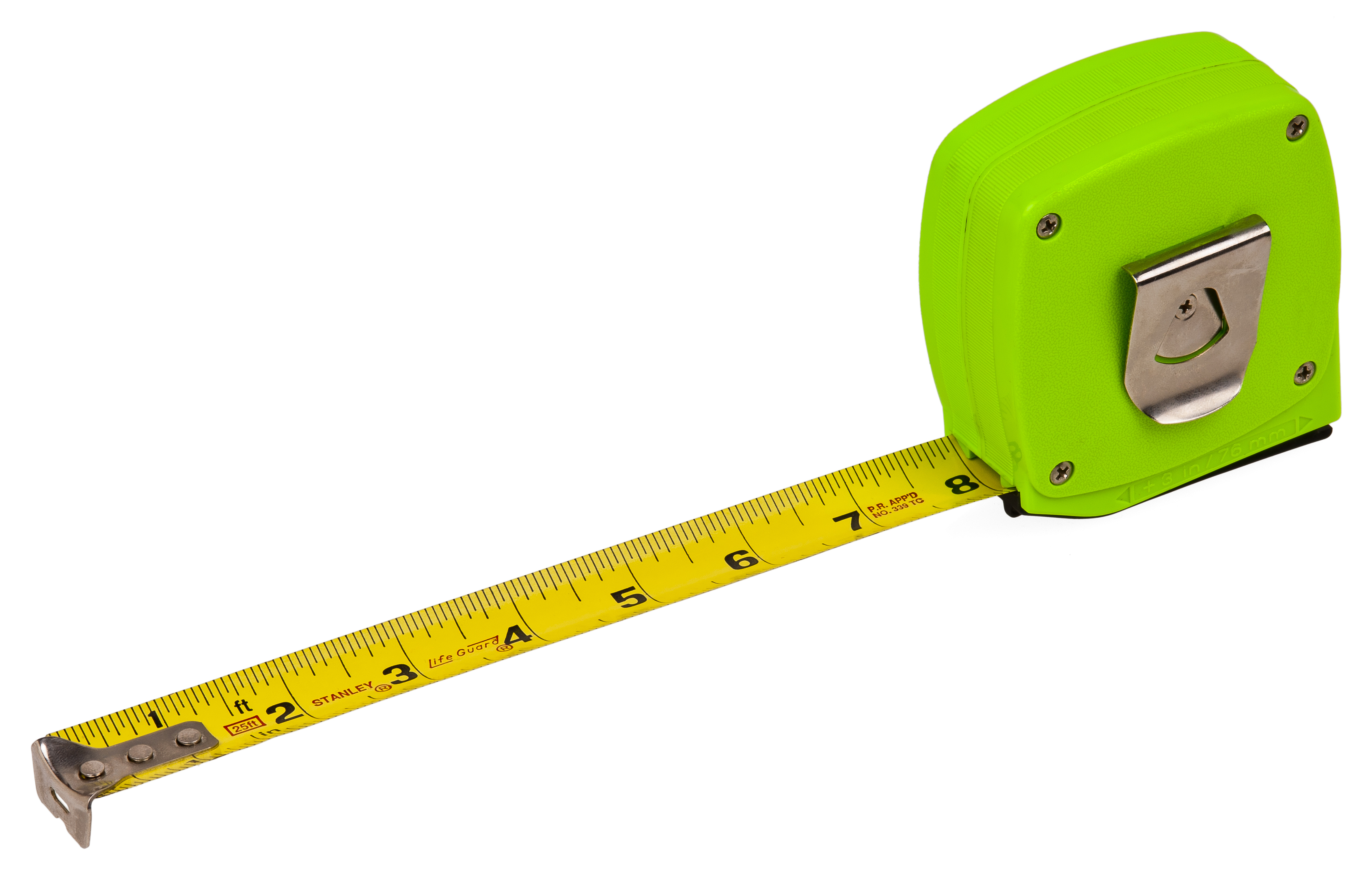 A standard measuring tape.